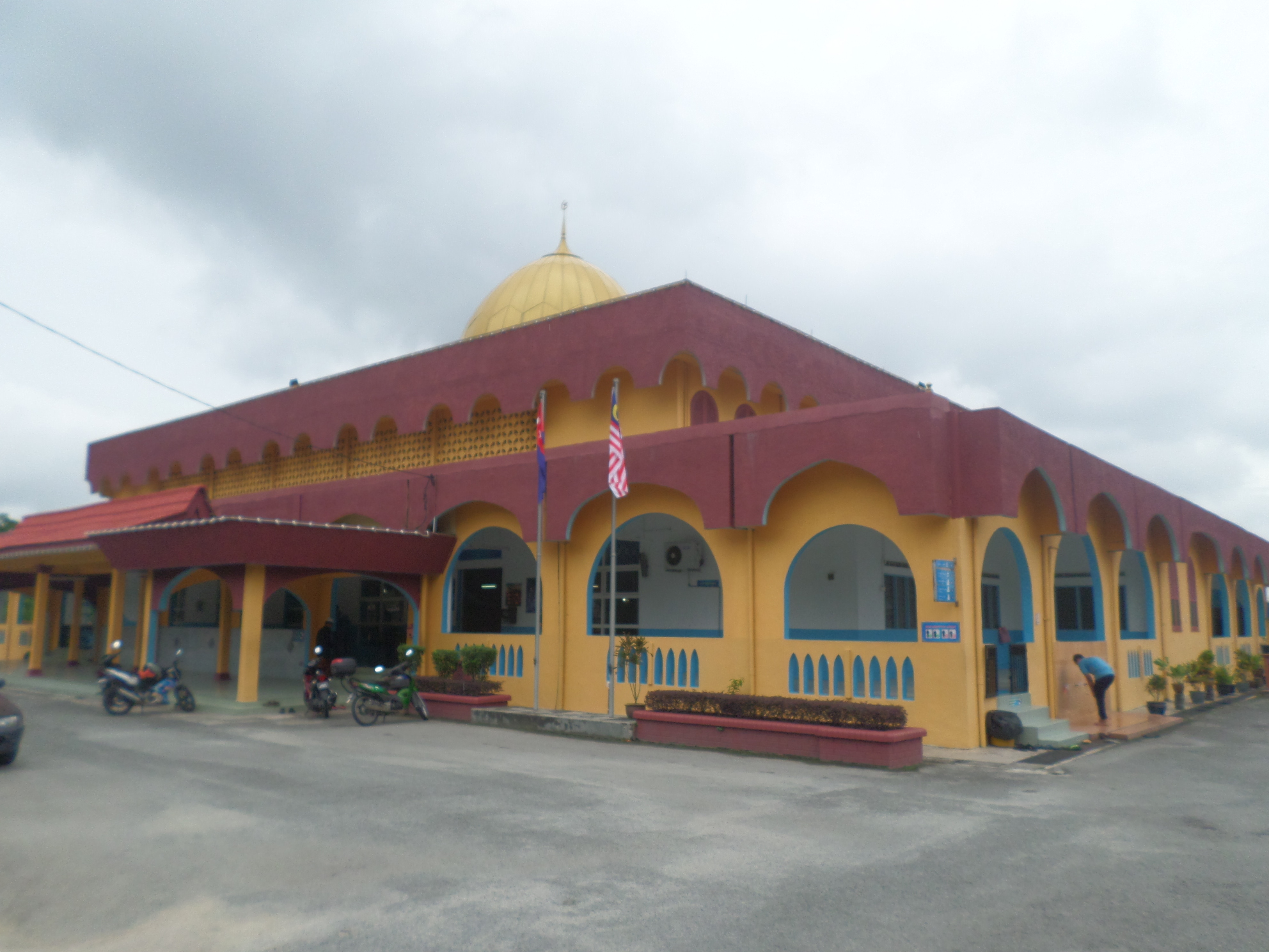 Ulu Tiram Town Mosque, Ulu Tiram, Johor Bahru, Johor, Malaysia